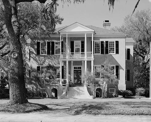 Tabby Manse - Thomas Fuller House (Beaufort, South Carolina) (Cropped)